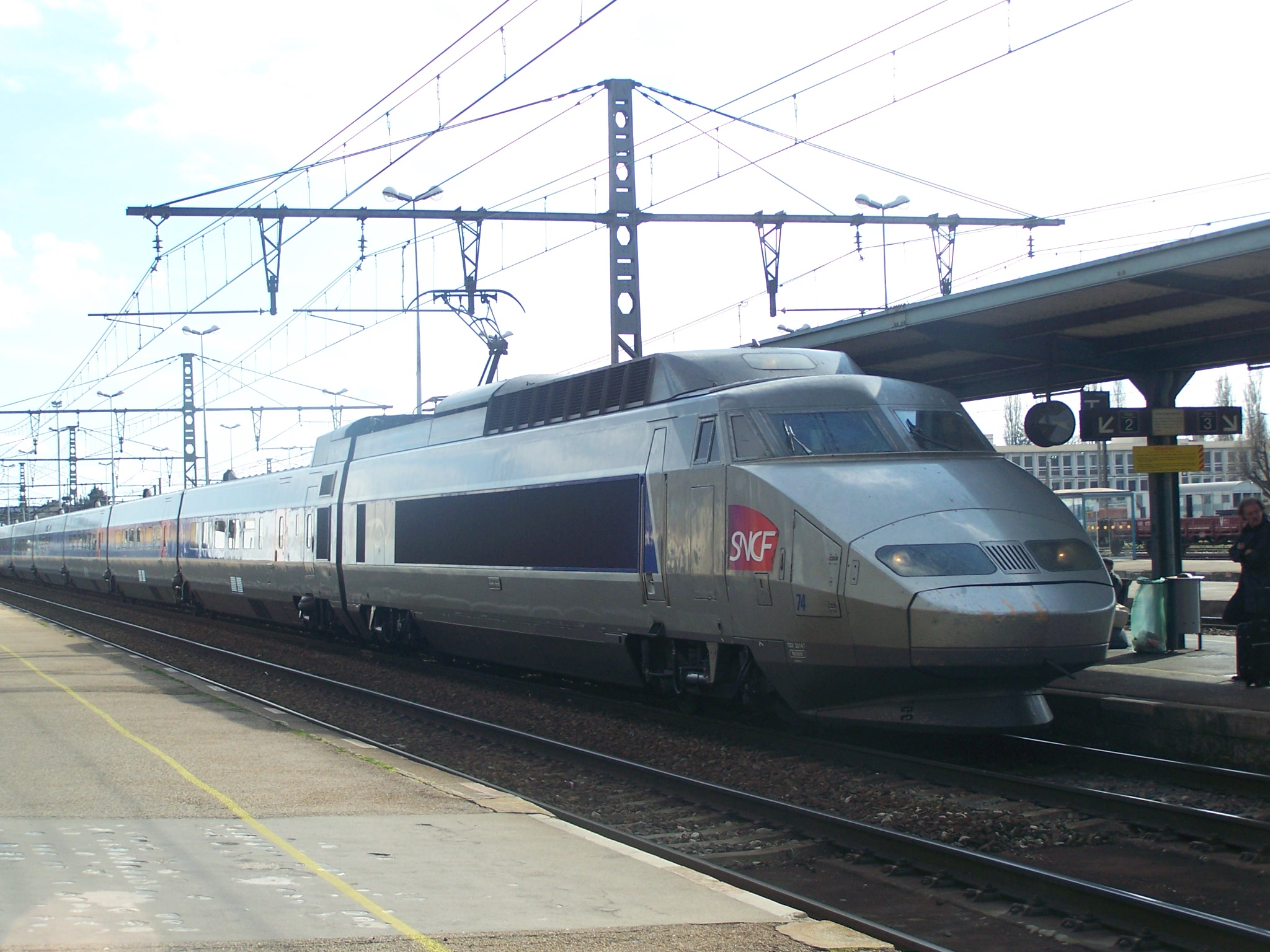 Arrival at Bourg-en-Bresse station of a TGV from Marseille to Strasbourg.